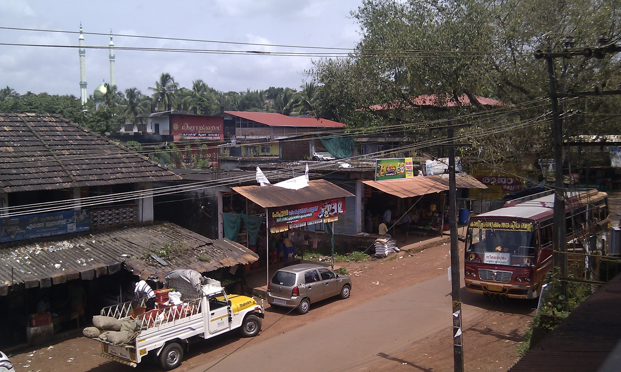 kalichanadukkam is a small town situated in the kasargod District of Kerala in India